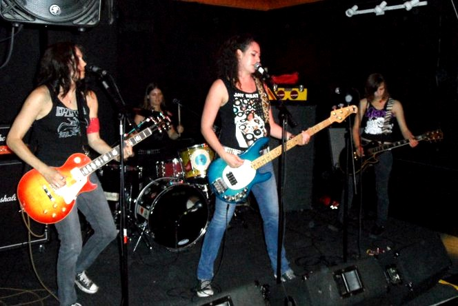 The Wanton Looks performing at Live Wire in Chicago